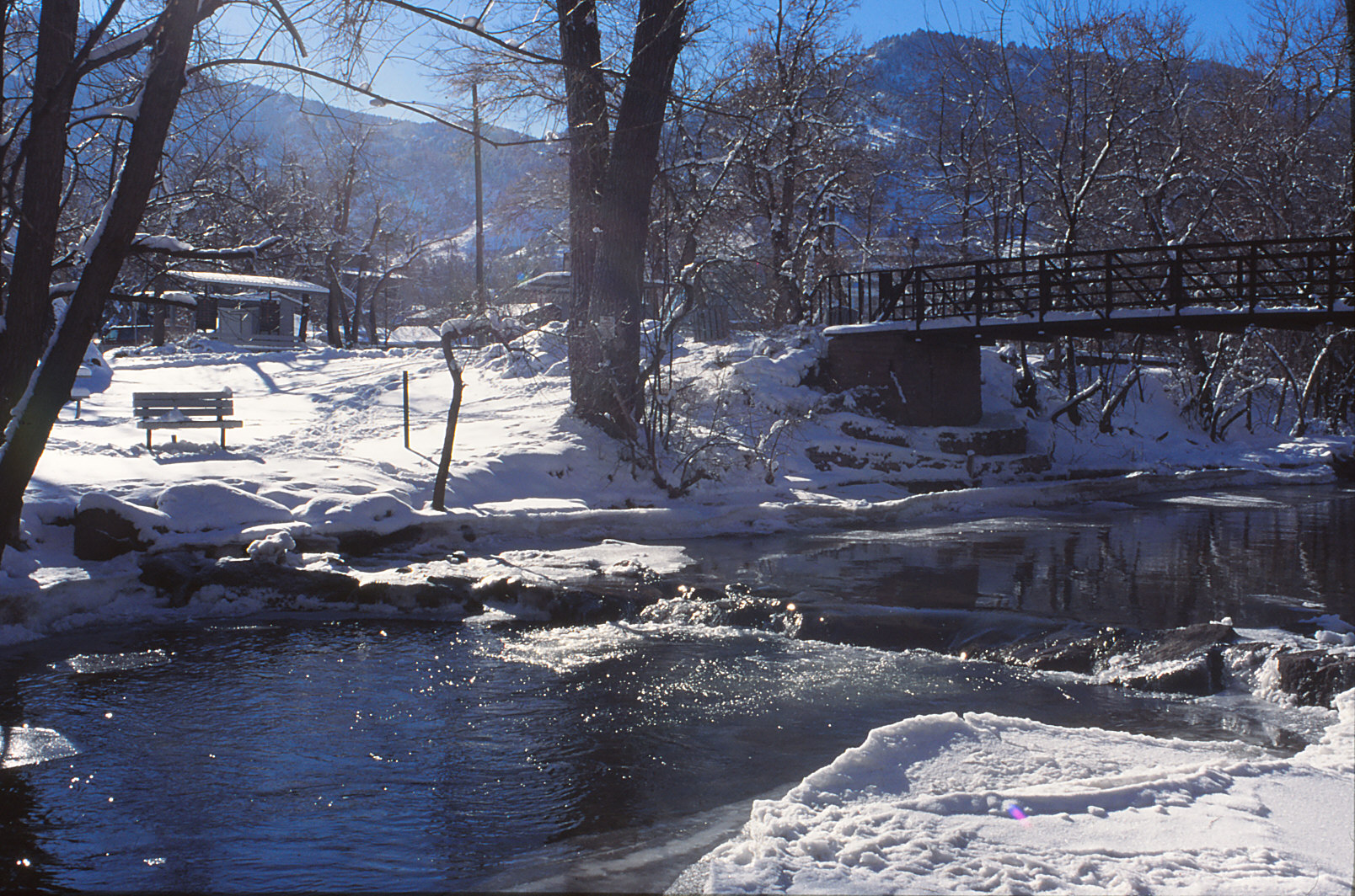 Boulder Creek Path